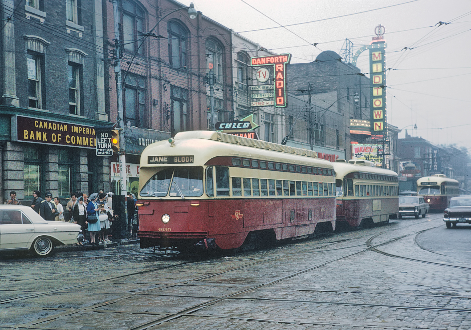 If you are not sure what PCC stands for, I suggest you A Roger Puta photograph.